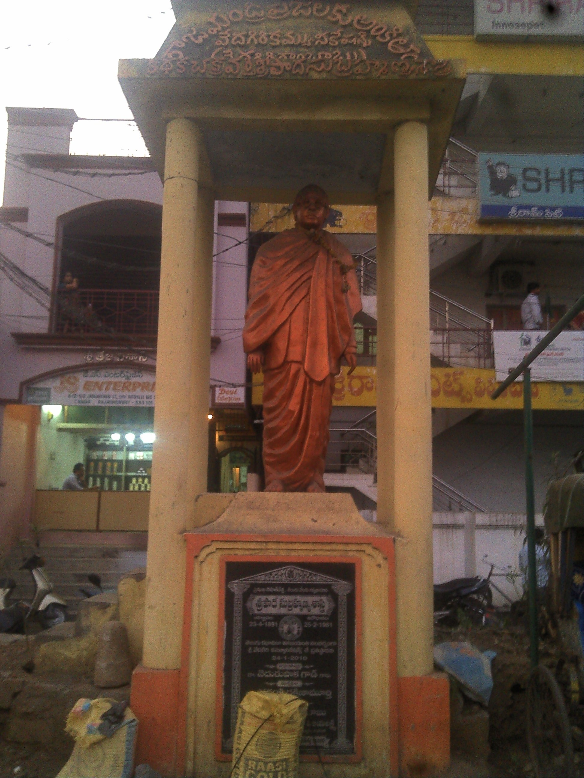 రాజమండ్రిలో వేదగిరి రాంబాబు చే నెలకొల్పబడిన శ్రీపాద సుబ్రహ్మణ్యం విగ్రహం